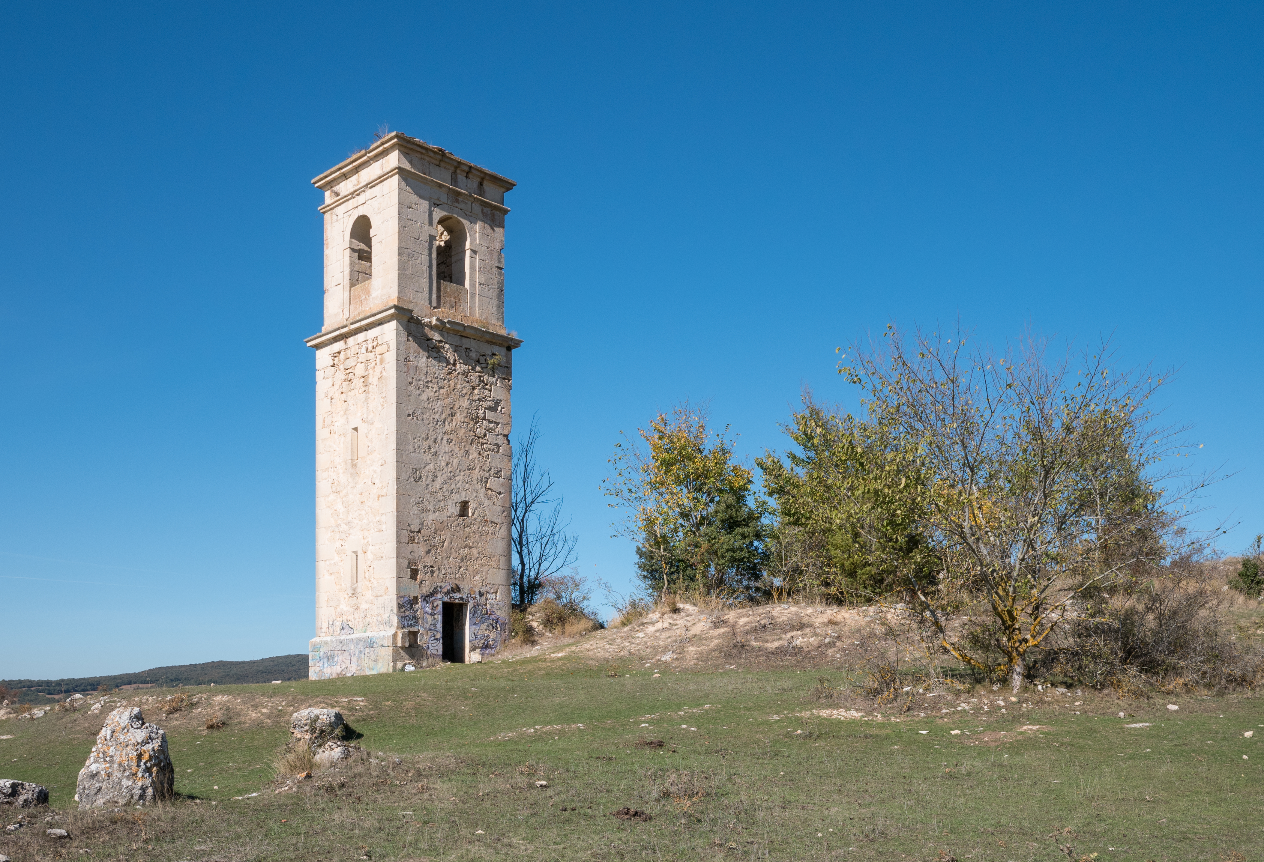 Ruins of the bell tower of the abandoned village of Otxate. Treviño County, Spain